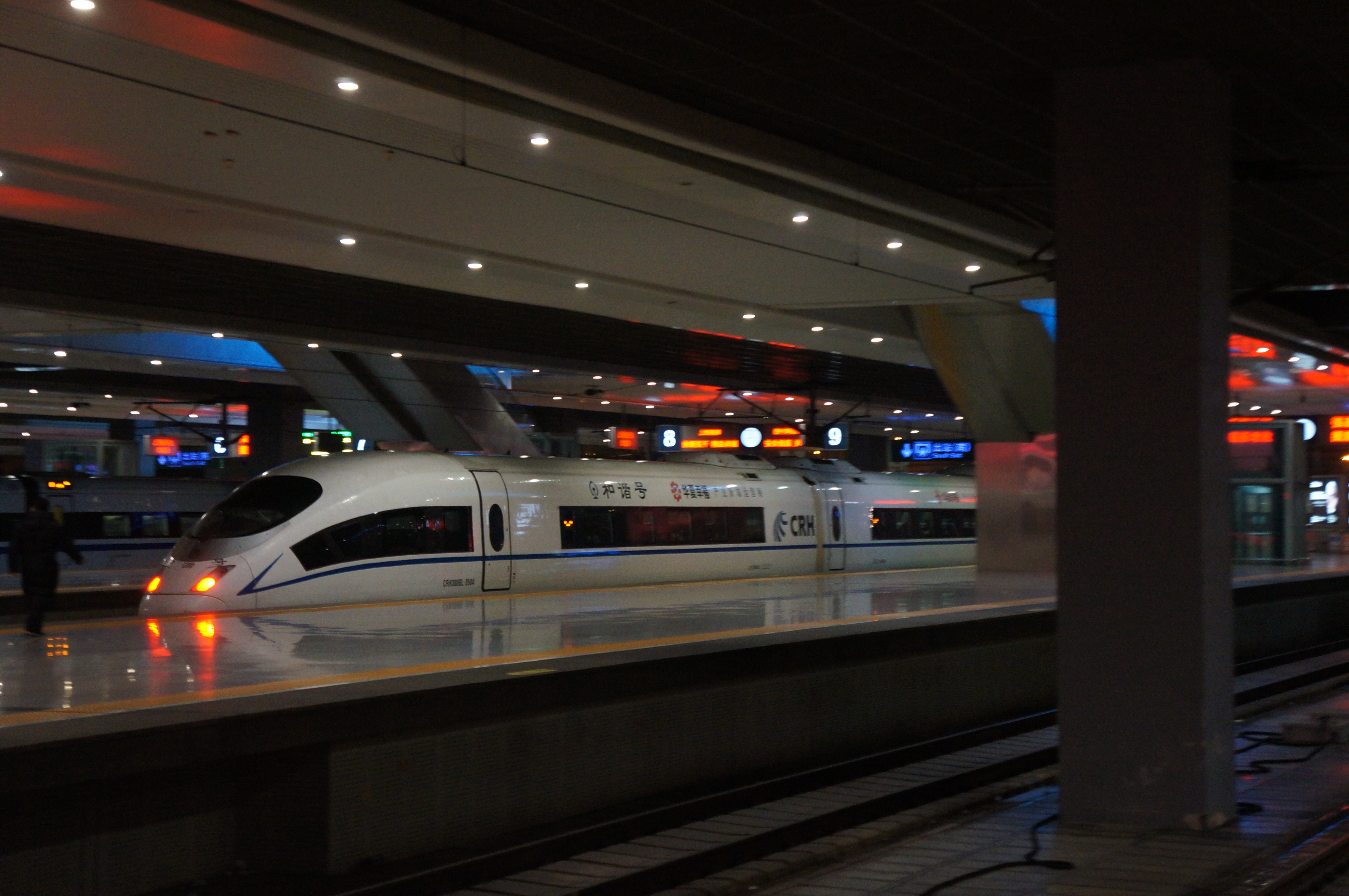 201703 G43 (CRH380BL with Huaxia Xinfu adv) departs from Shanghai Hongqiao Station